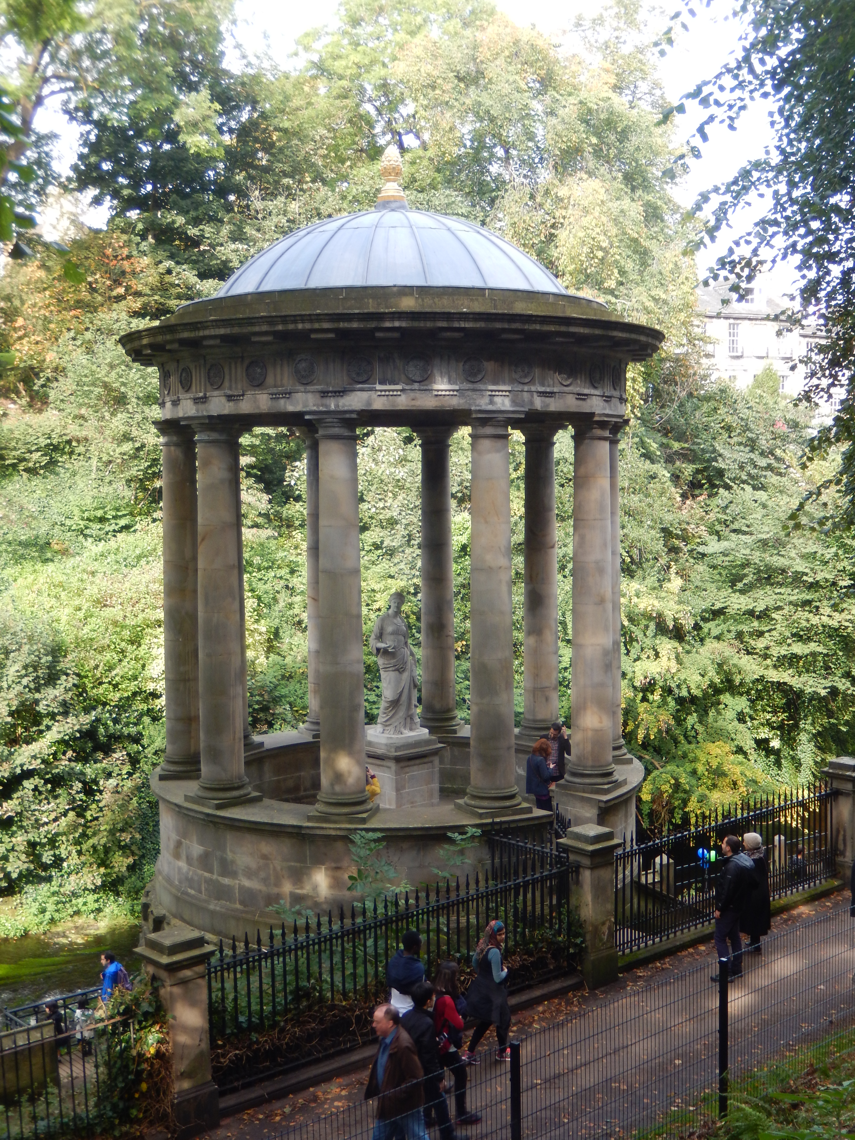 St Bernard's Well on the Water Of Leith, Edinburgh, viewed from the Bank Gardens of Lord Moray's Feu. Wikidata has entry Q17570795 with data related to this item.